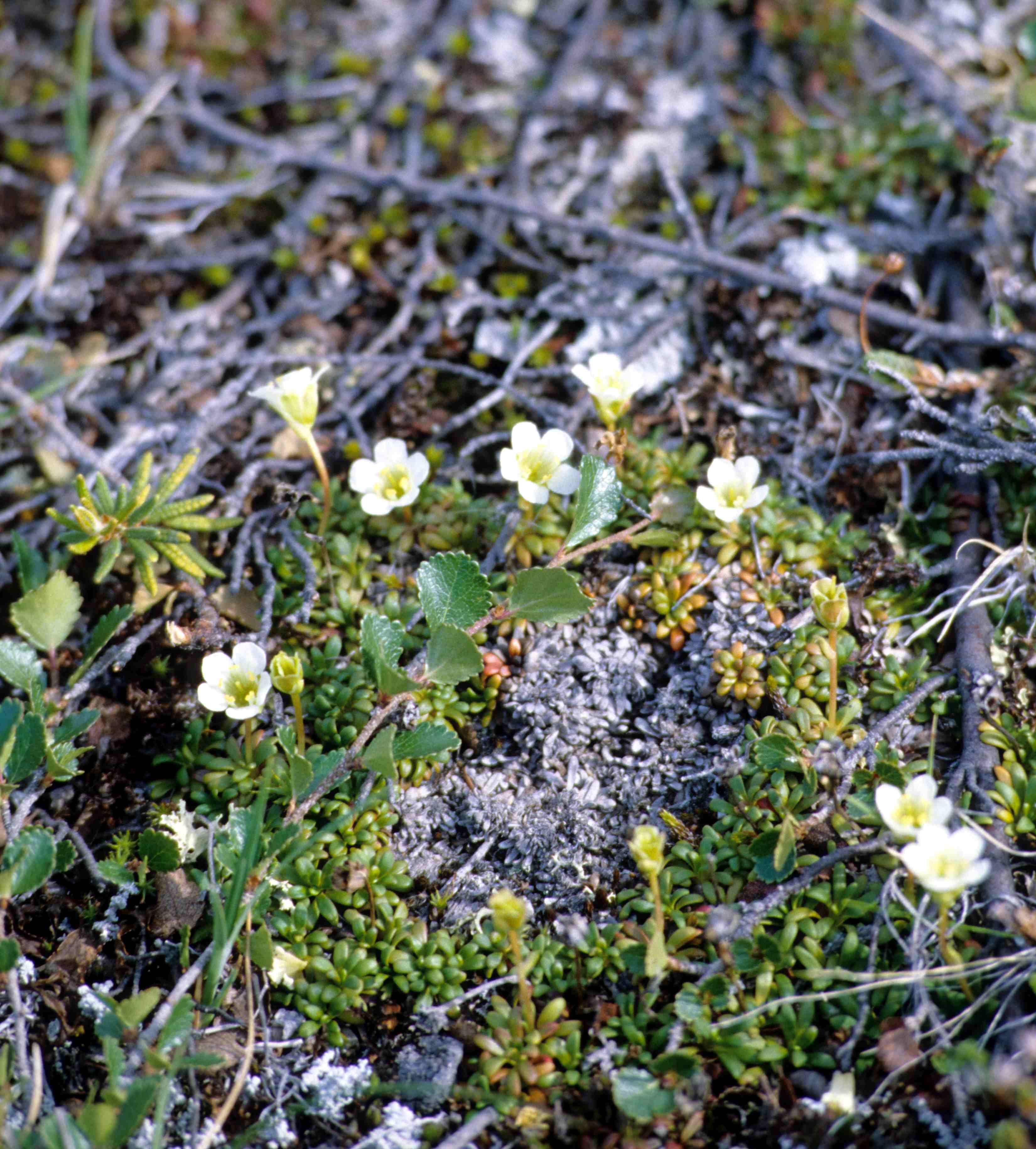 Diapensia lapponica with a branch of dwarf birch; near Wager Bay (Ukkusiksalik National Park, Nunavut, Canada)